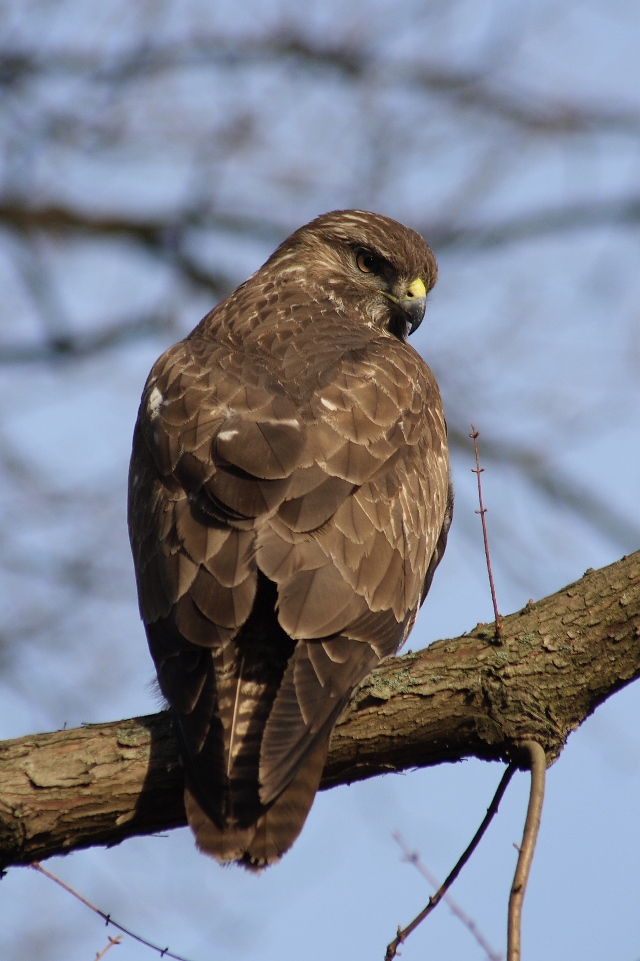 Young Common Buzzard (Buteo buteo) in its second calendar year. Municipal park Planten un Blomen, Hamburg, Germany.